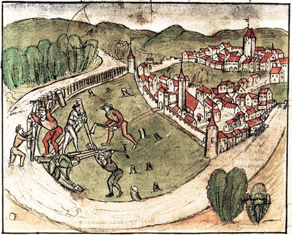 Construction of a palisade at the bend of the river Reuss near Bremgarten during the Old Zürich War in1443.